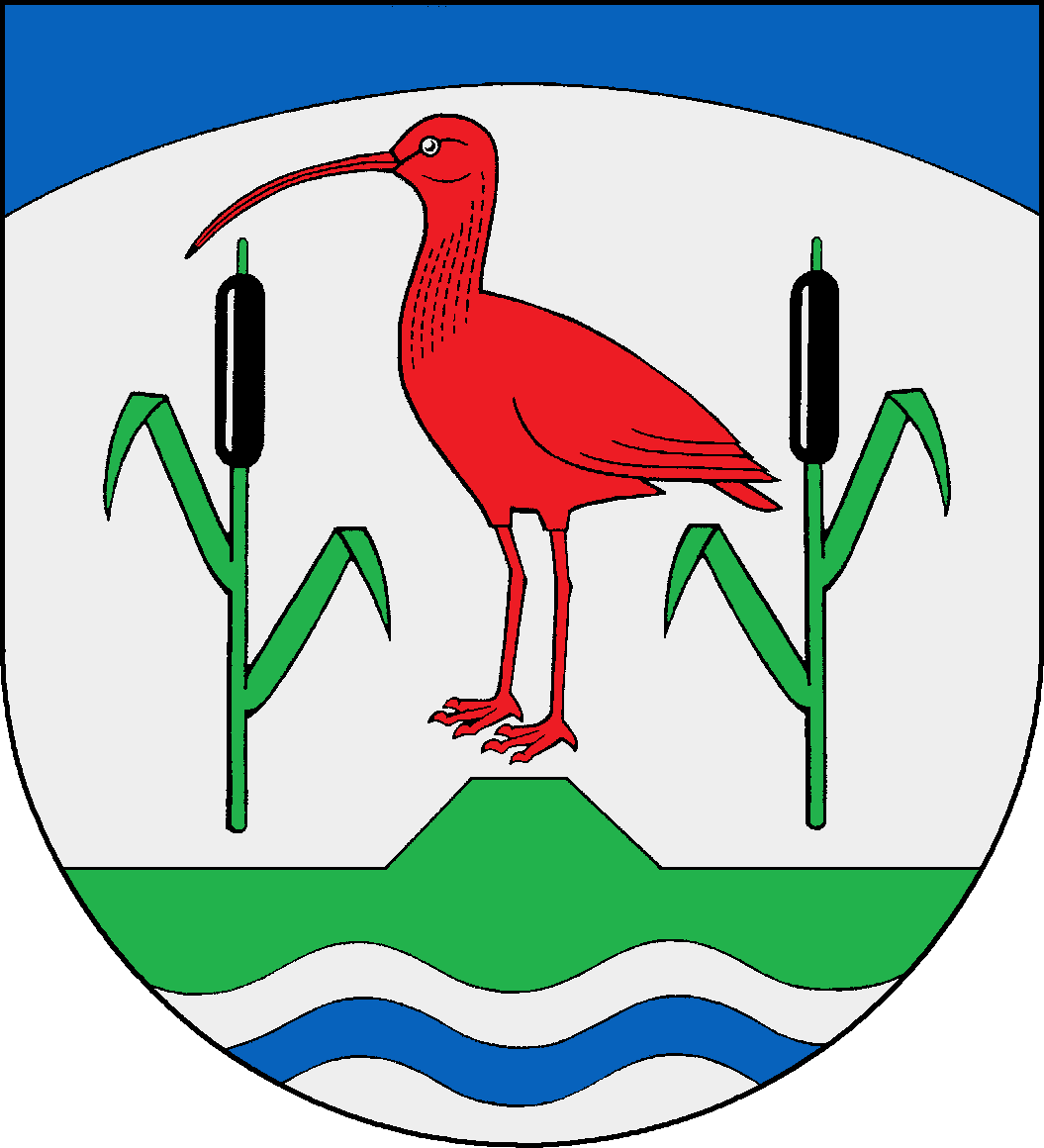 Coat of arms of the municipality Moordiek in Schleswig-Holstein, Germany.